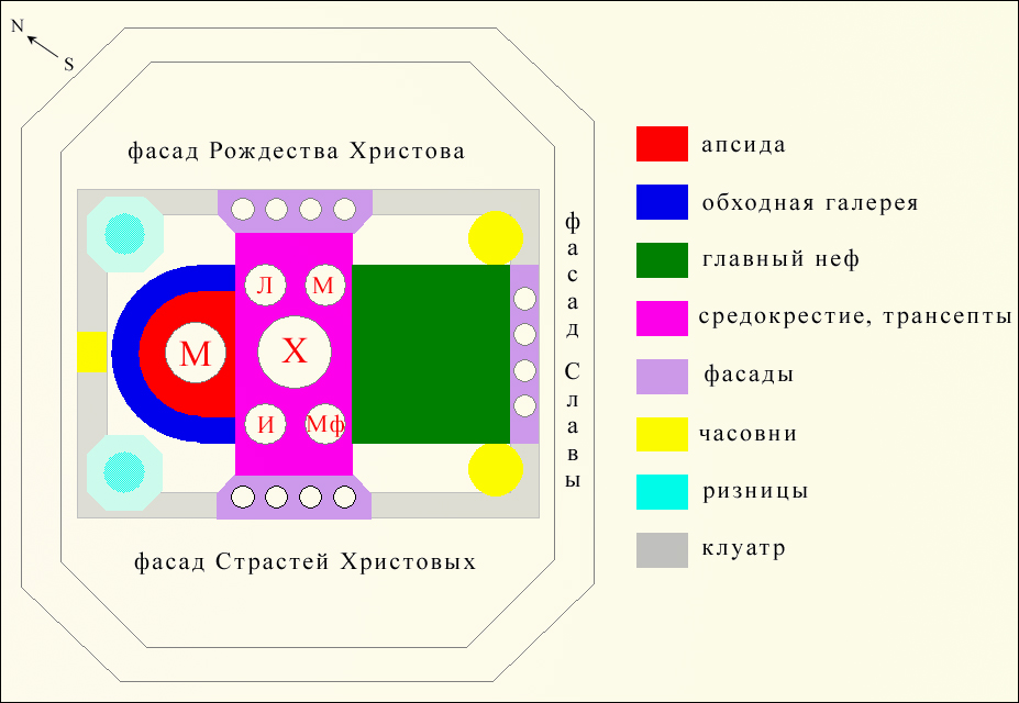 Scheme of the Sagrada Família, Barcelona